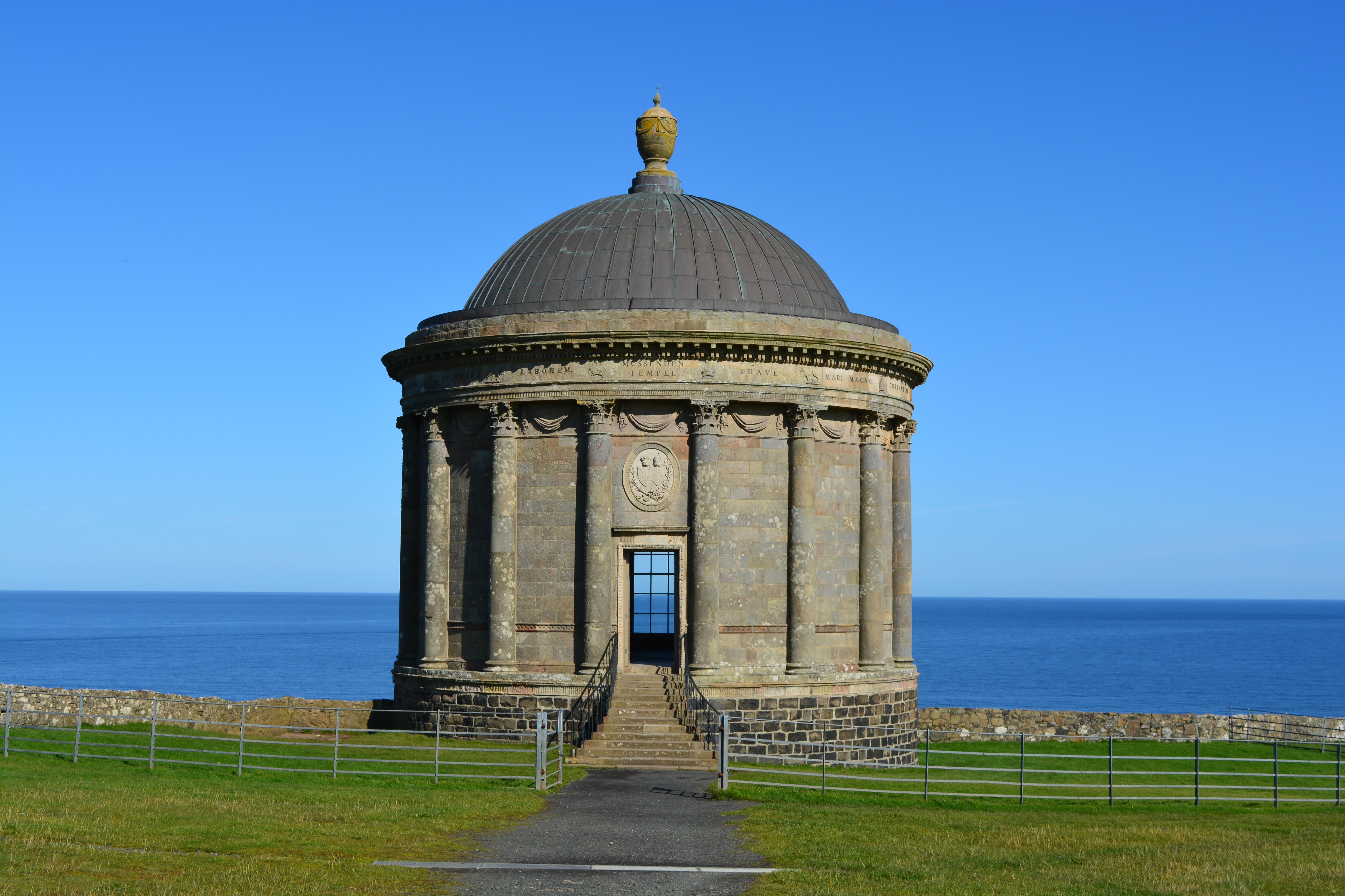 Mussenden Temple Downhill Castlerock Co. Londonderry Wikidata has entry Q17780163 with data related to this item.